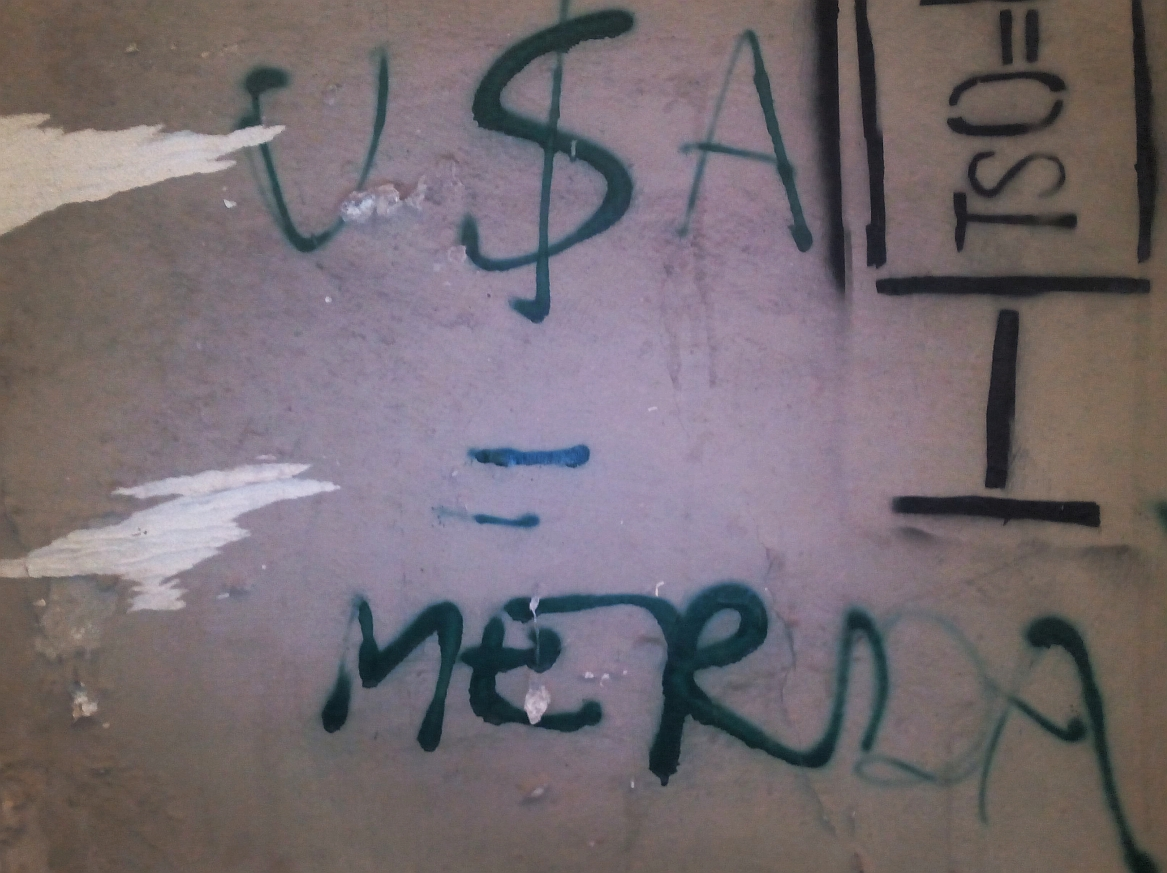 U$A = merda - graffiti in Turin, Italy